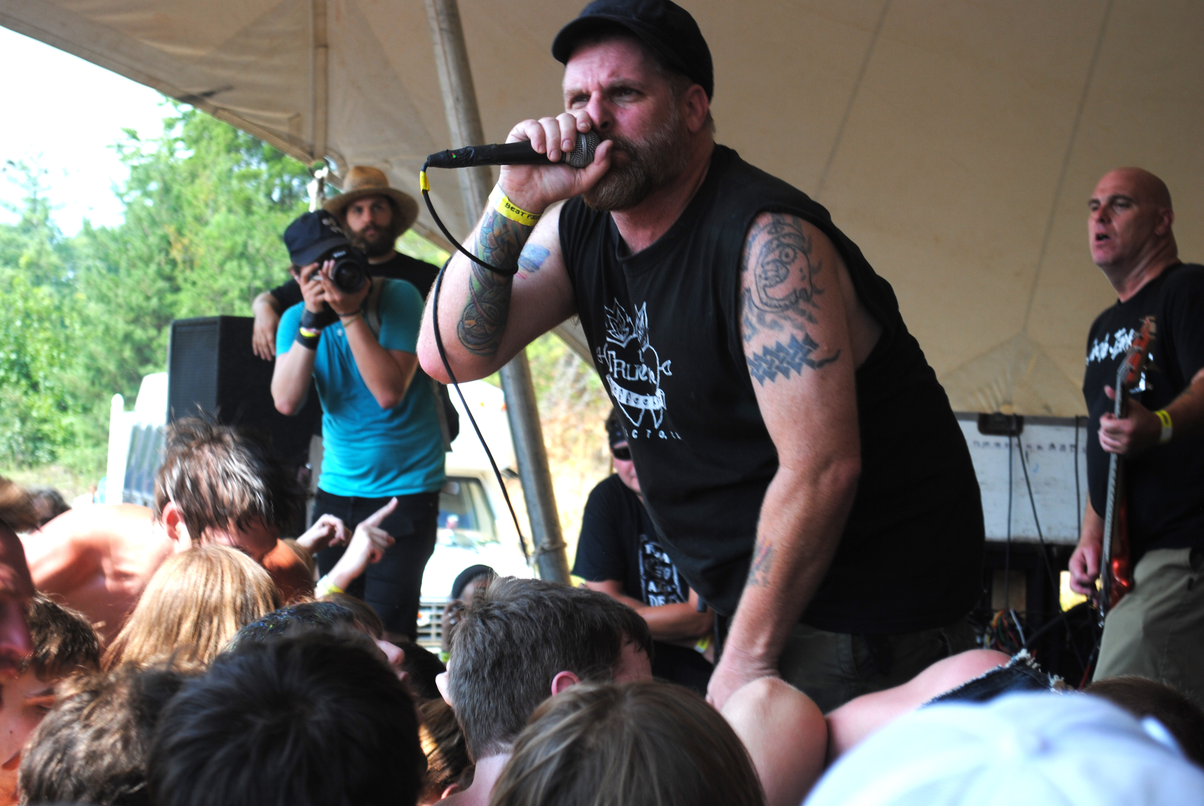 Published on